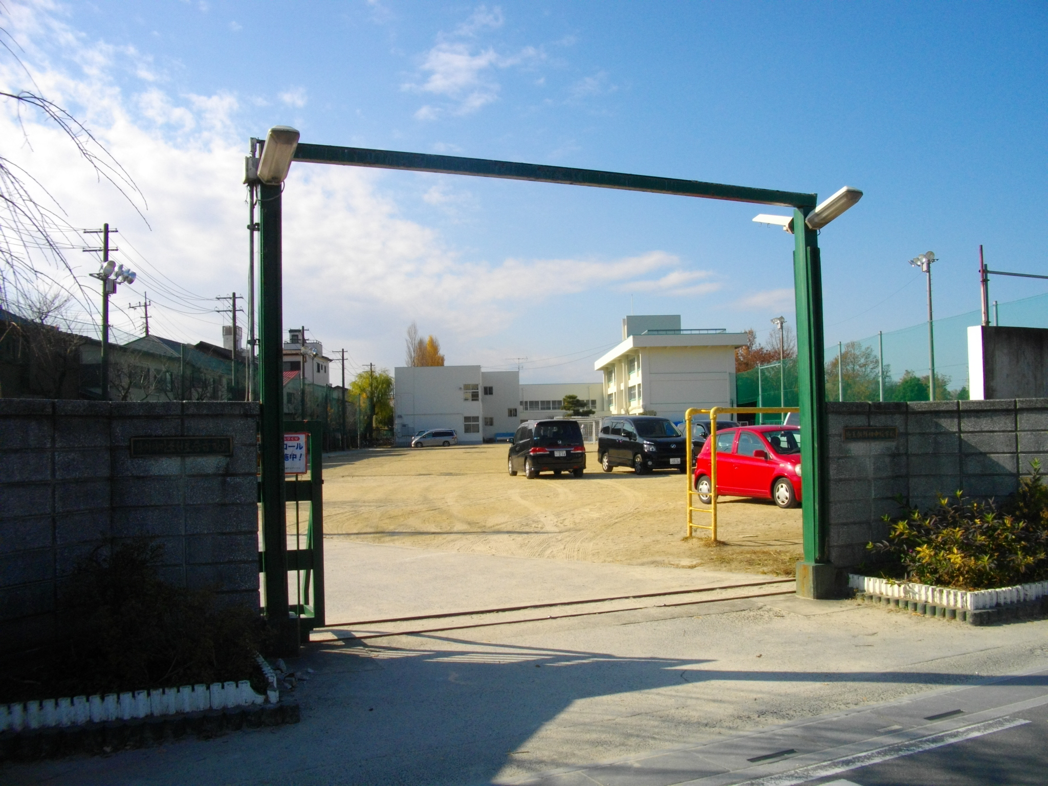 Saitama Korean Elementary and Junior High School